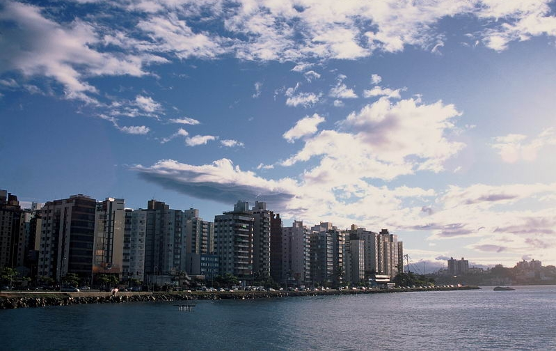 Beira-Mar av., Florianópolis, Brazil.